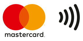 Mastercard Contactless Logo